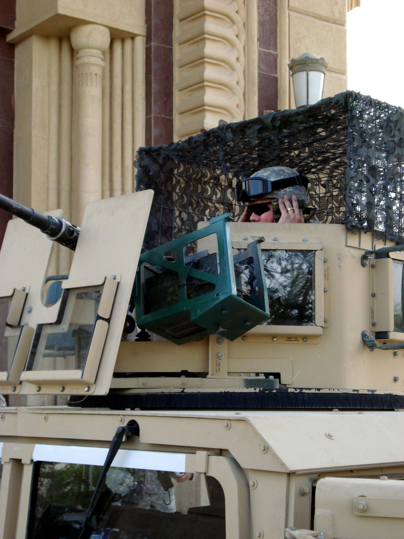 Pfc. Cory McNicol of U.S. Army Europe's 18th Military Police Brigade prepares his security team position as he and his team members get ready to depart for a mission in the Baghdad area.